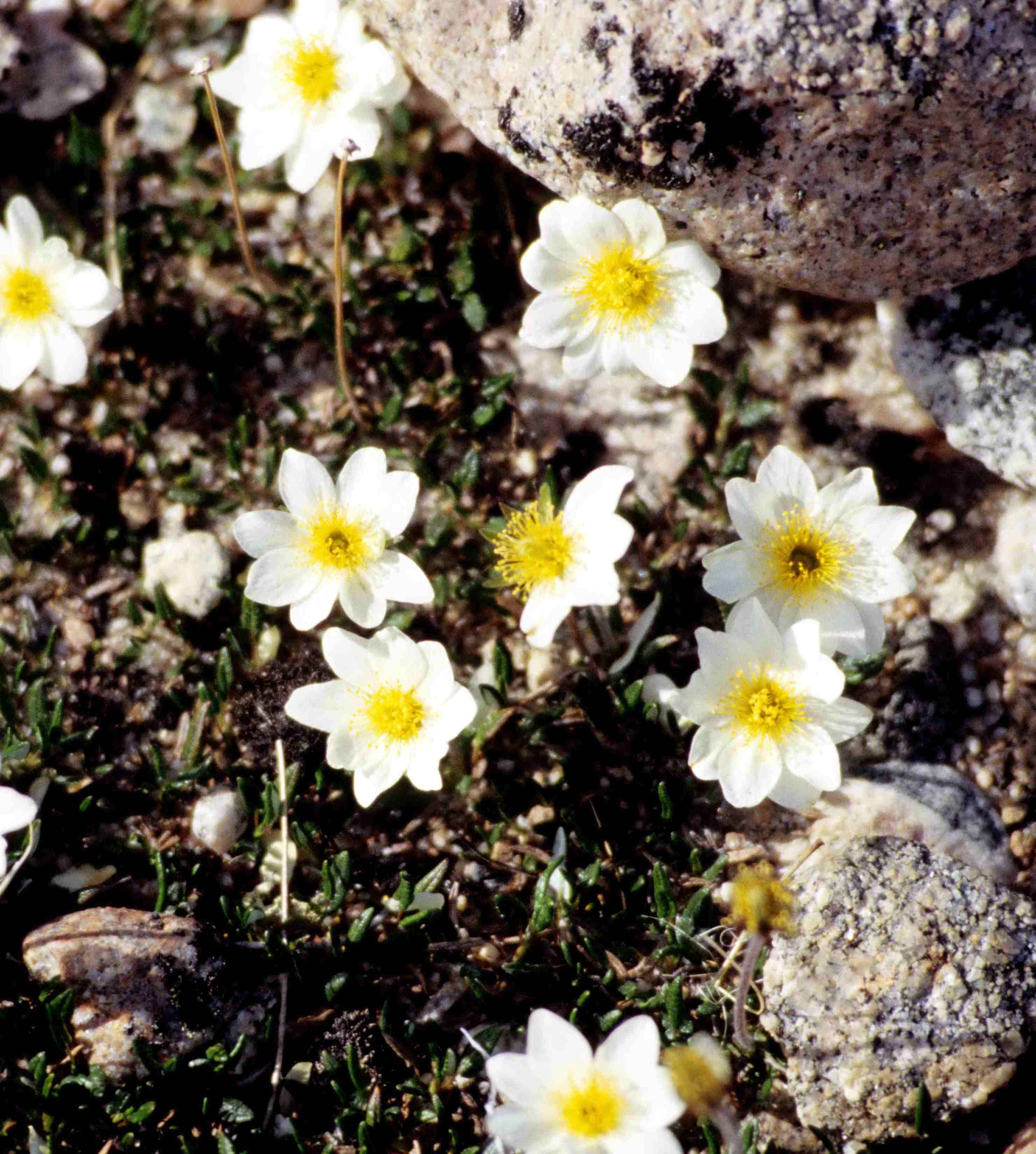 Mountain avens, Dryas integrifolia (Quttinirpaaq National Park)